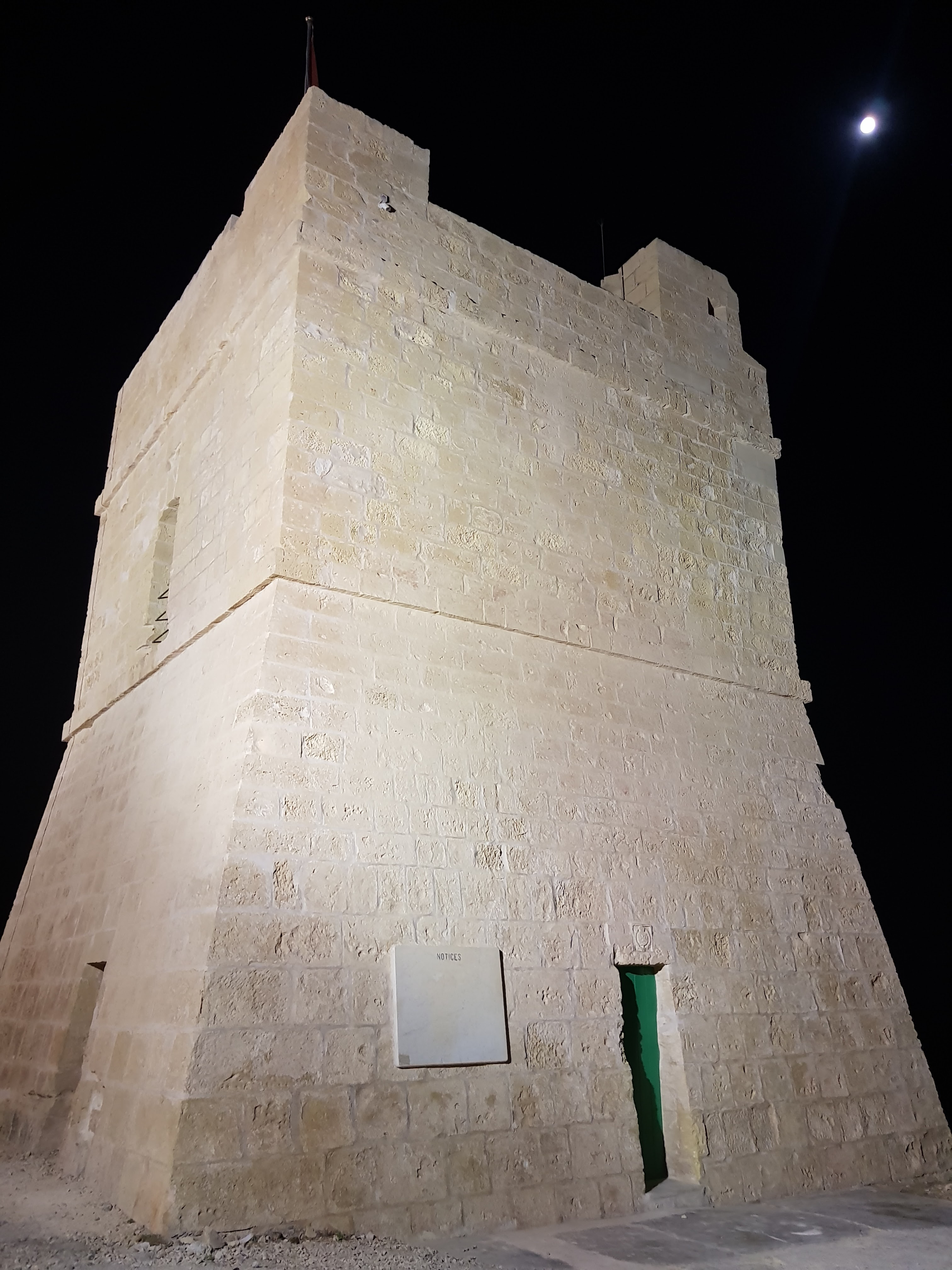 Ta Sciuta Tower aka Wied iz-Zurrieq Tower This media is about Maltese cultural property with inventory number 01388.